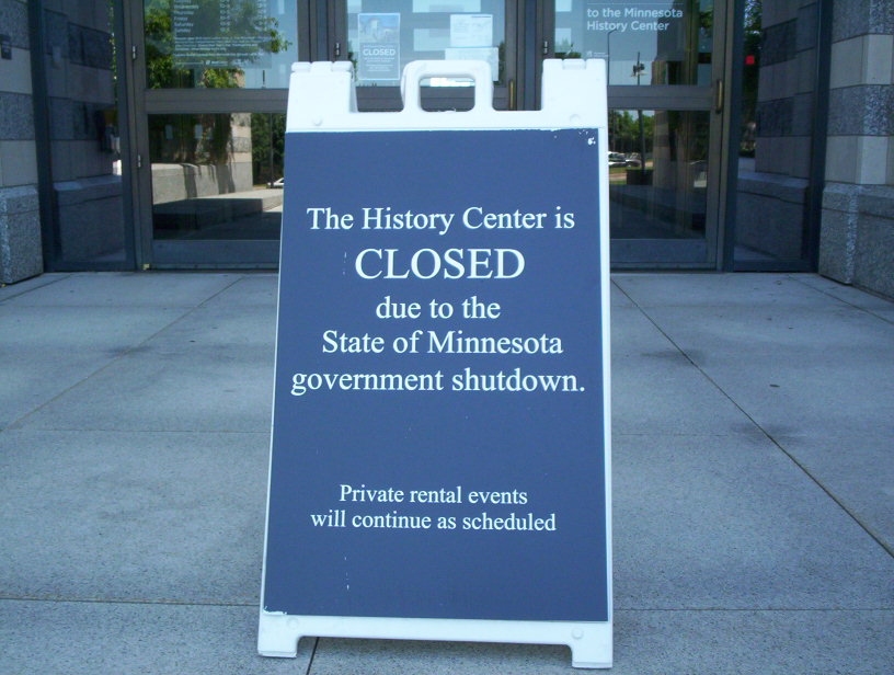 Sign in front on of the Minnesota Historical Society Building stating that the building and office are closed due to the 2011 Minnesota State Government Shutdown.